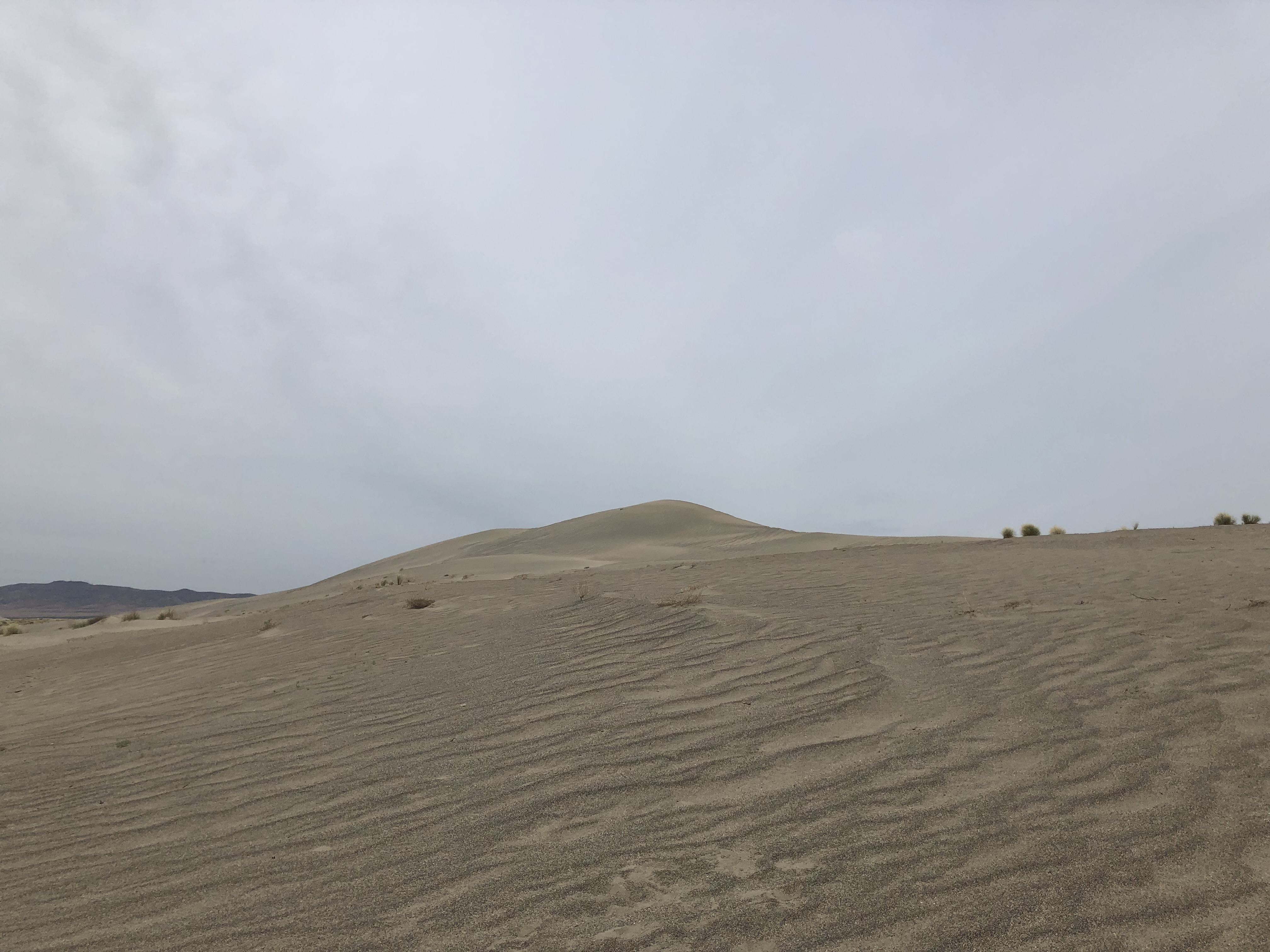 Sand dunes in Hanford Reach National Monument, Washington. This sand is from wind blown landslide deposits a few miles away.